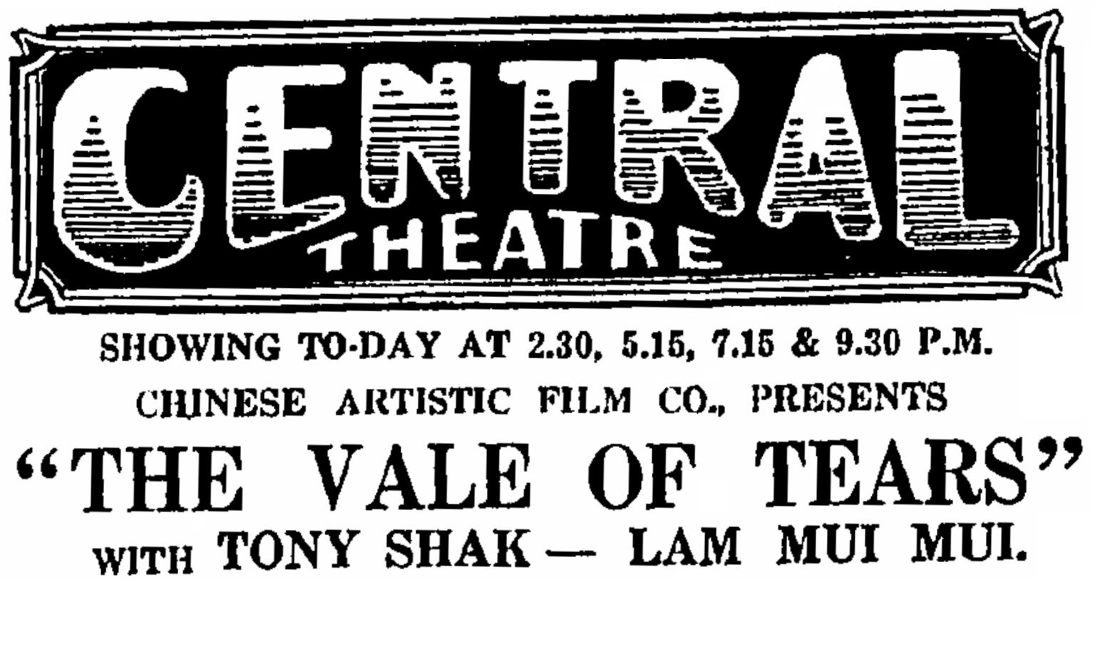 "The Vale of Tears (苦海)" is the second film production from Hong Kong branch of Canton "Chinese Artistic Film Company (華藝影片公司)", China.